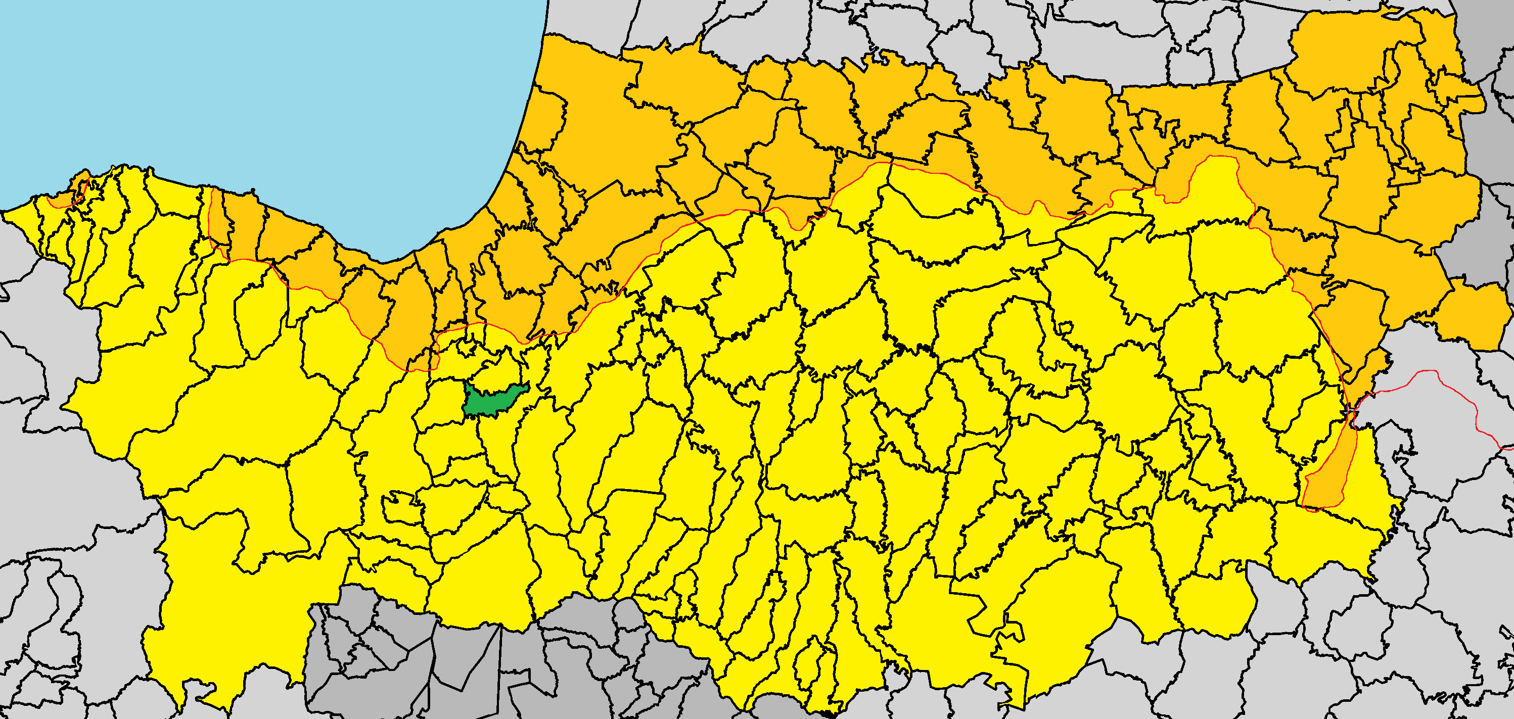 Flasou in Nicosia District.